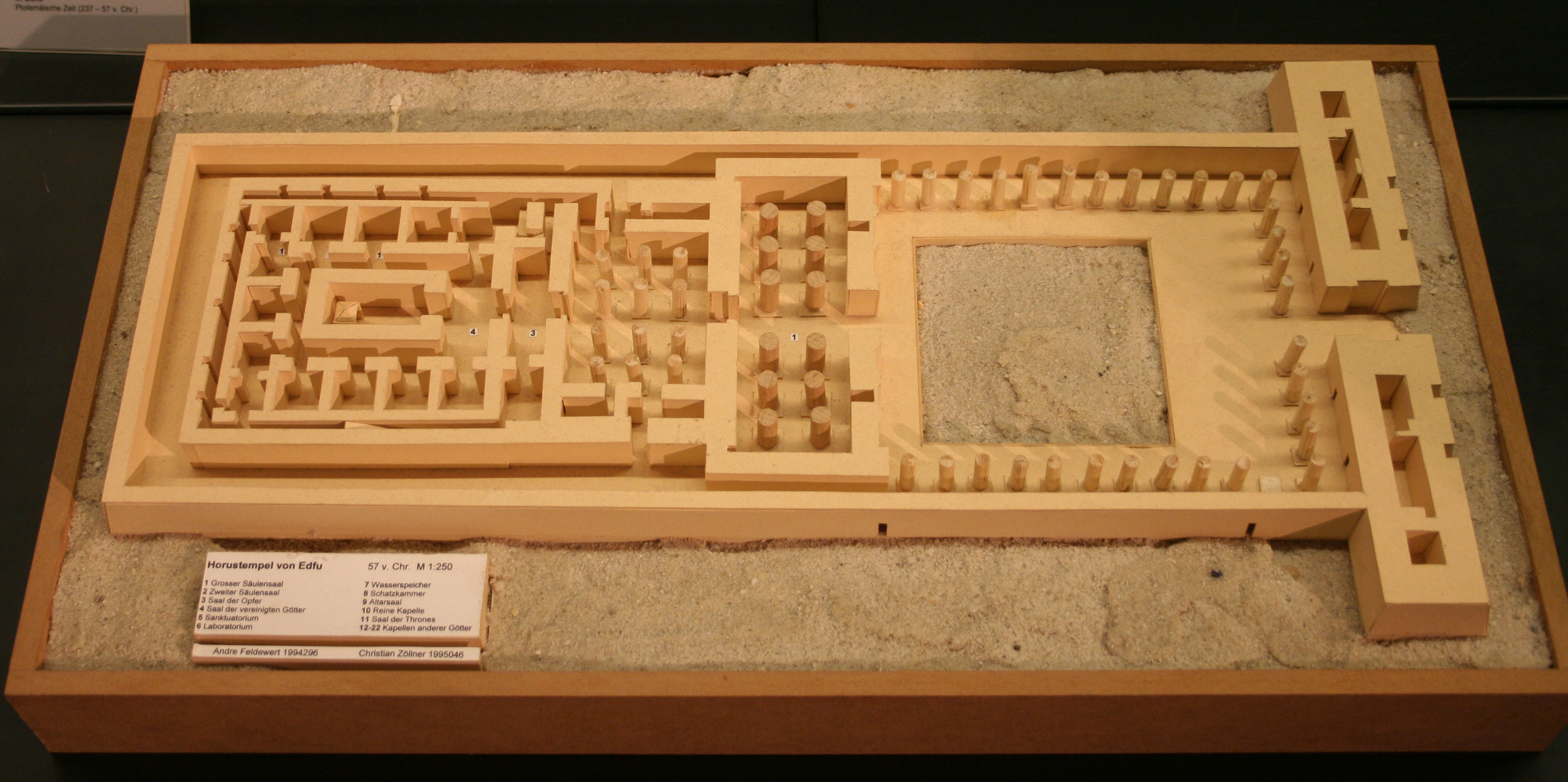 Model of the Horus temple of Edfu; Kestner Museum, Hannover